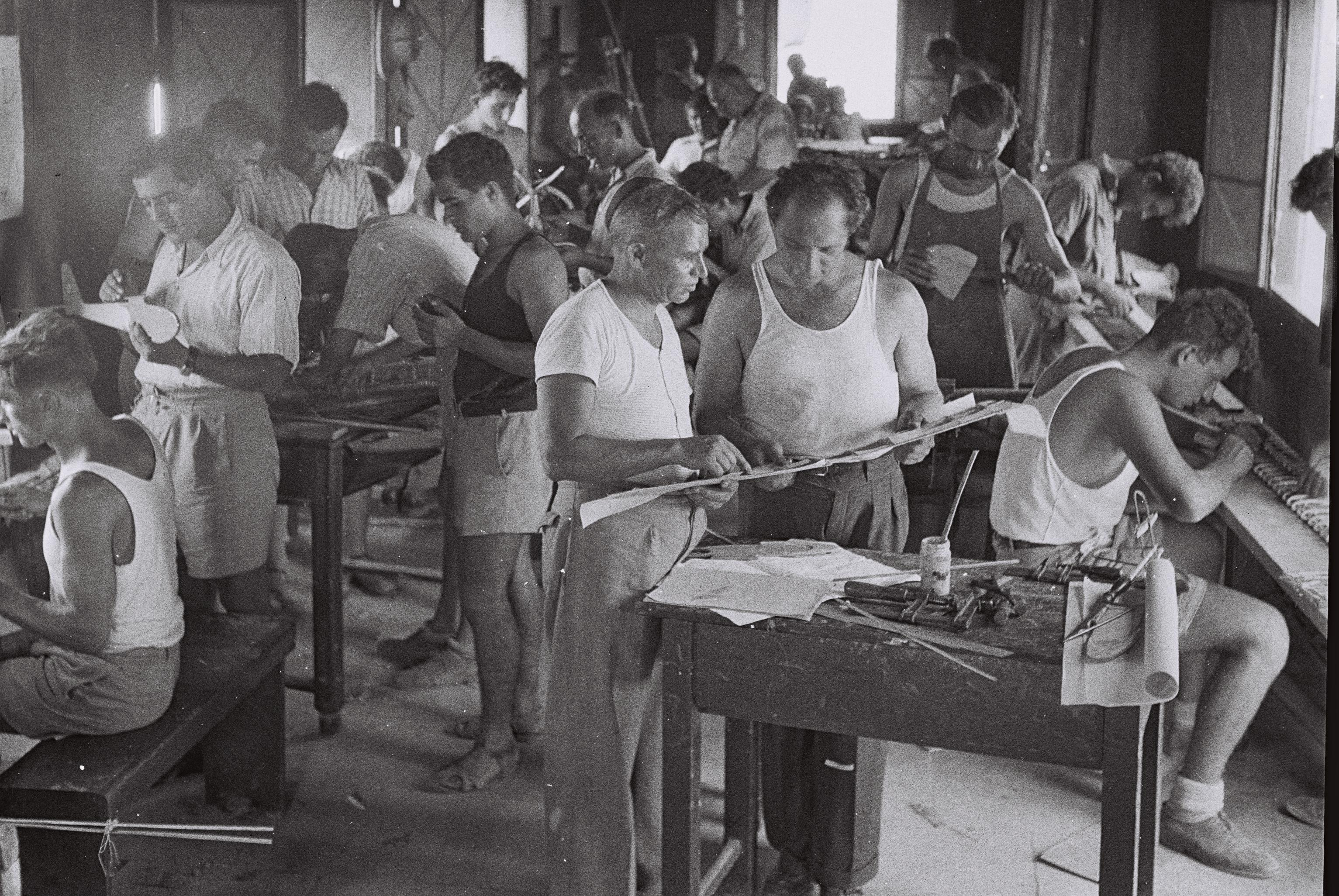 MEMBERS OF THE "FLYING CAMEL" GLIDING CLUB BUILDING GLIDER MODELS IN THEIR CLUB ROOM. חברי מועדון הגלישה "הגמל המעופף" בונים דגמים של גלשנים.